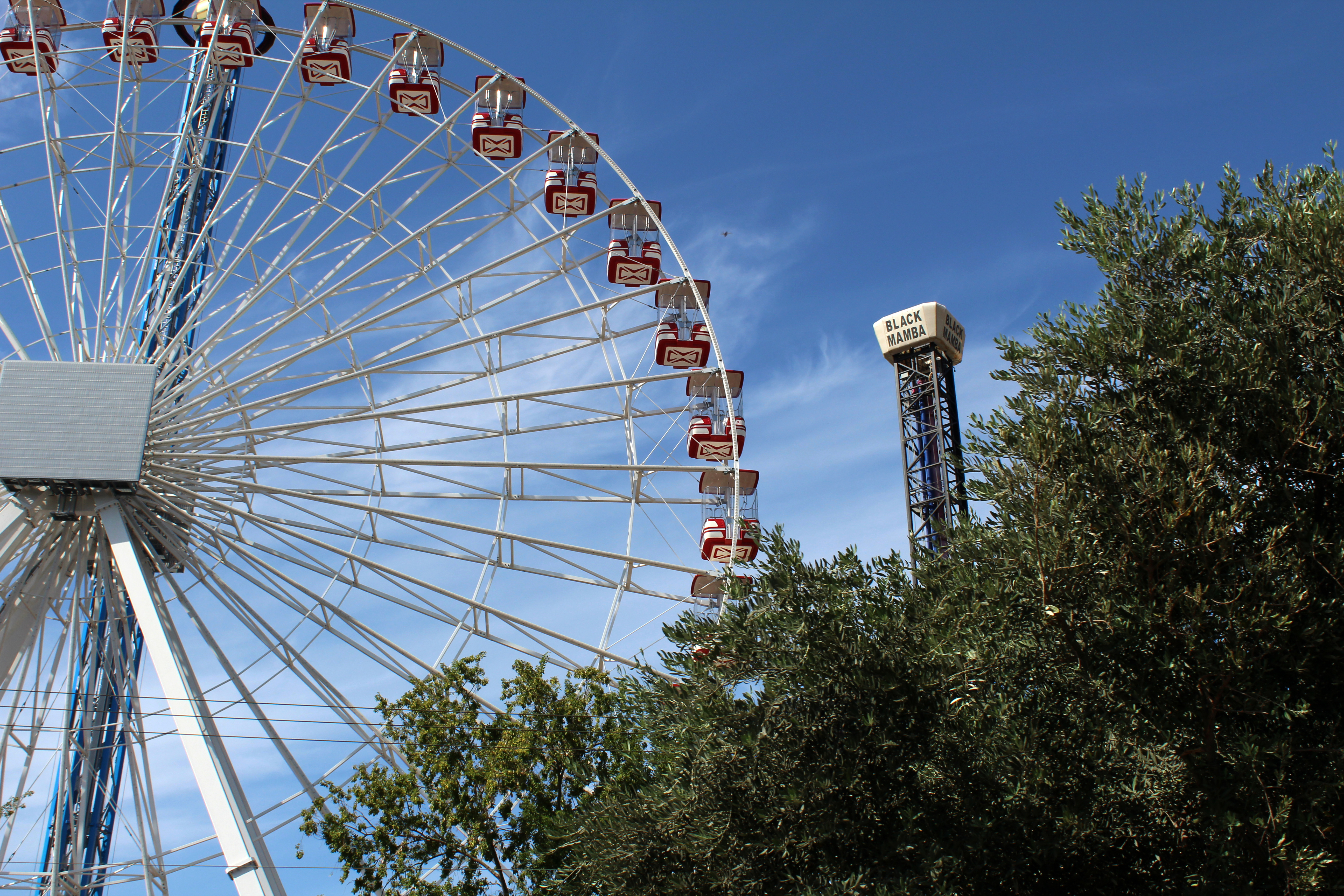 Ferris whell at Tel Aviv's Luna park